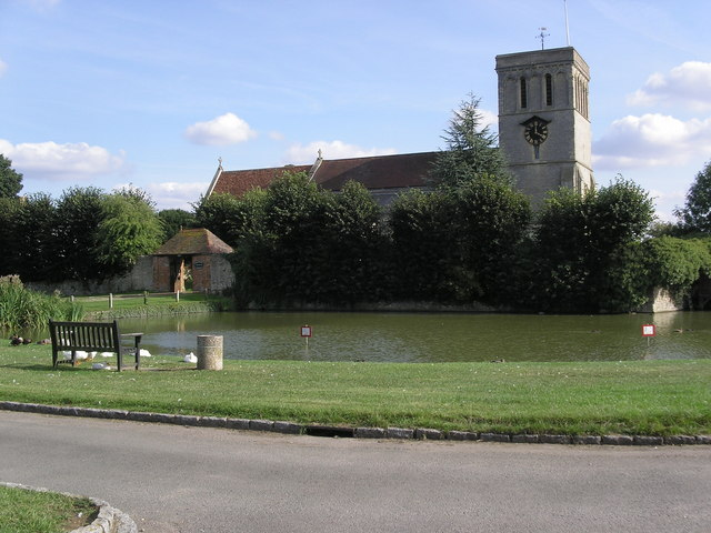 Haddenham, Buckinghamshire: Church of England parish church of St Mary and village pond